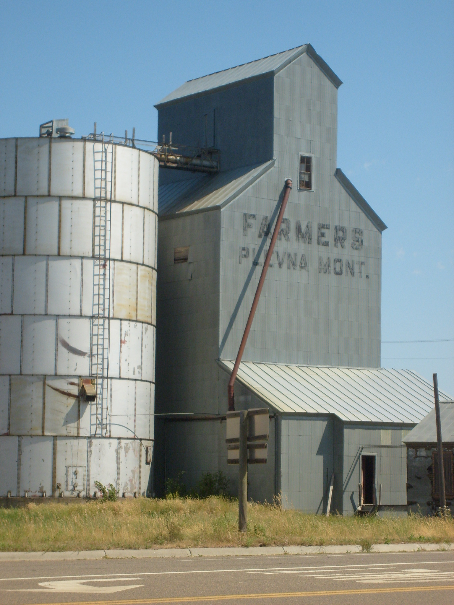 Plevna MT